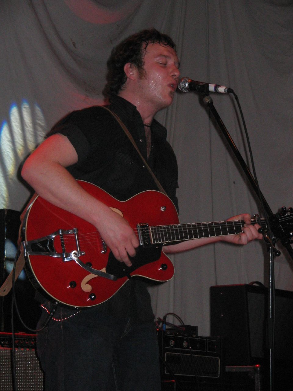 Mundy. Charity gig 30/05/05 tbmcMundy